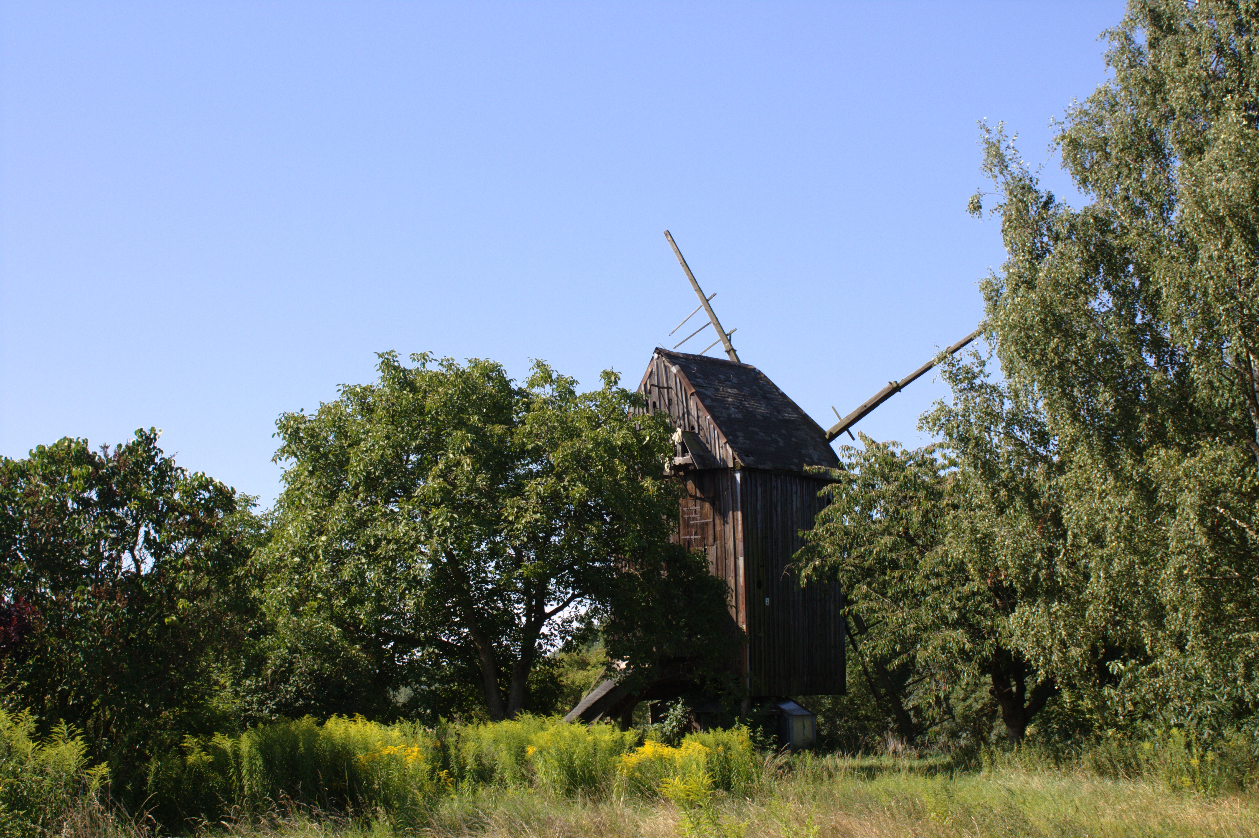 Windmill in Osterweddingen, Sülzetal near Magdeburg